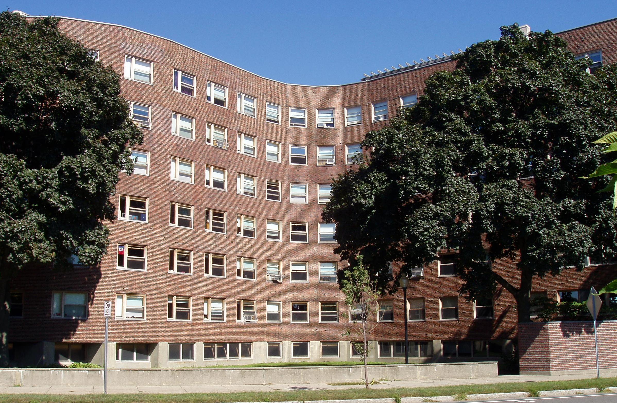 Baker House, MIT, Cambridge, Massachusetts. Architect Alvar Aalto. This is just a small portion of this interesting and beautiful building. Photograph taken by me, September 2005. Category:Massachusetts Institute of Technology Category:Alvar Aalto buildings